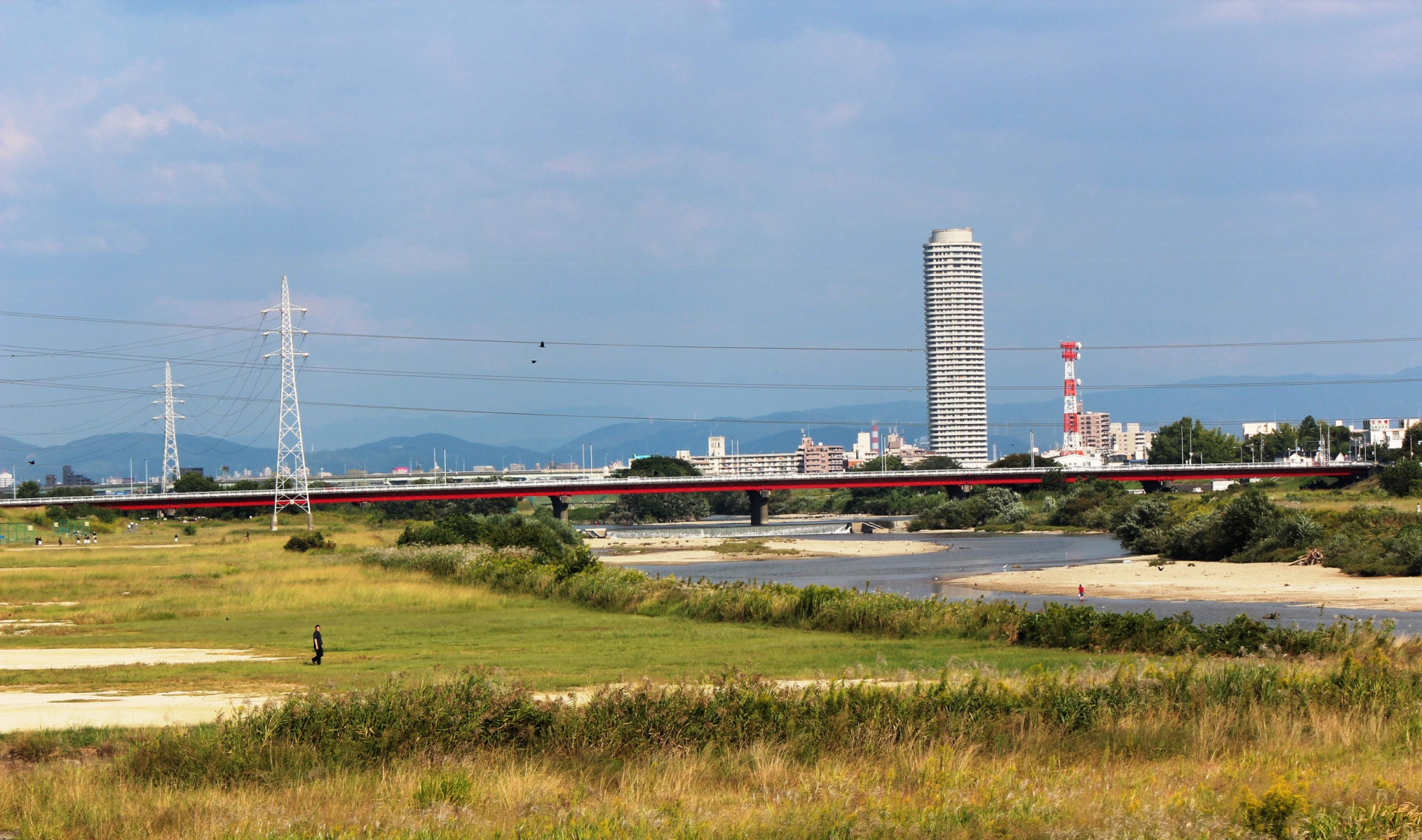 The Scene Johoku by the Shōnai River and the Shonaigawa Bridge on the Aichi Prefectural Road Route 63